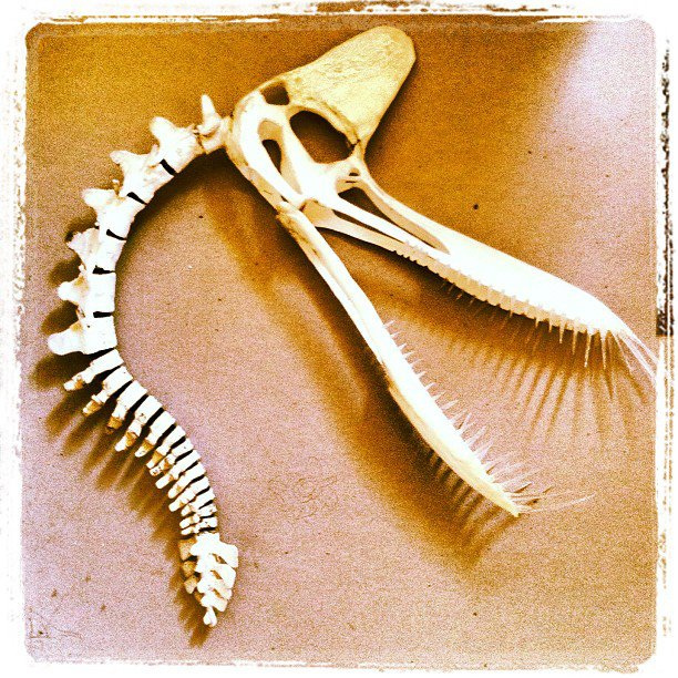 Head and spine